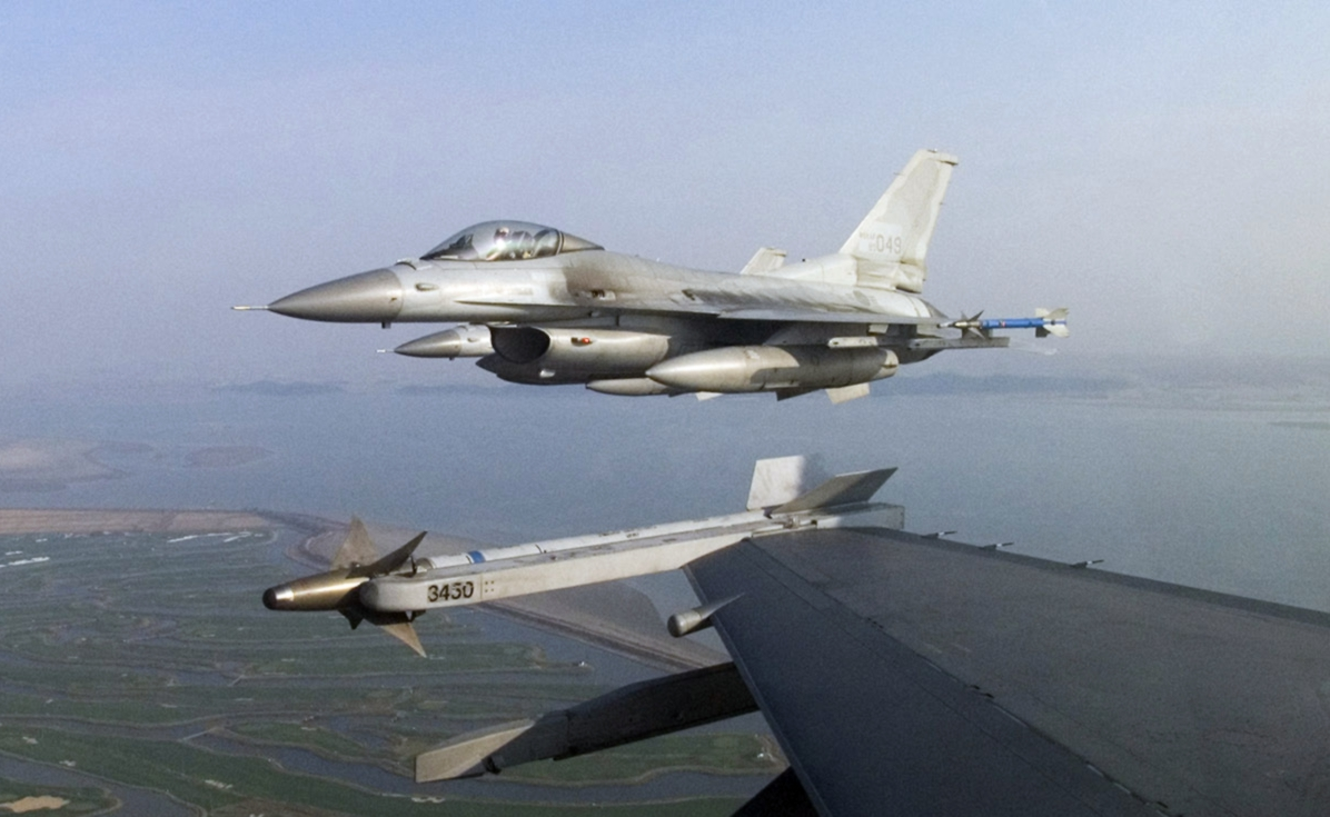 Two Republic of Korea Air Force Lockheed F-16C Fighting Falcons from the 111th Fighter Squadron, form up on USAF F-16s over Kunsan air base after completing a joint-training mission with pilots from the USAF 8th Fighter Wing.